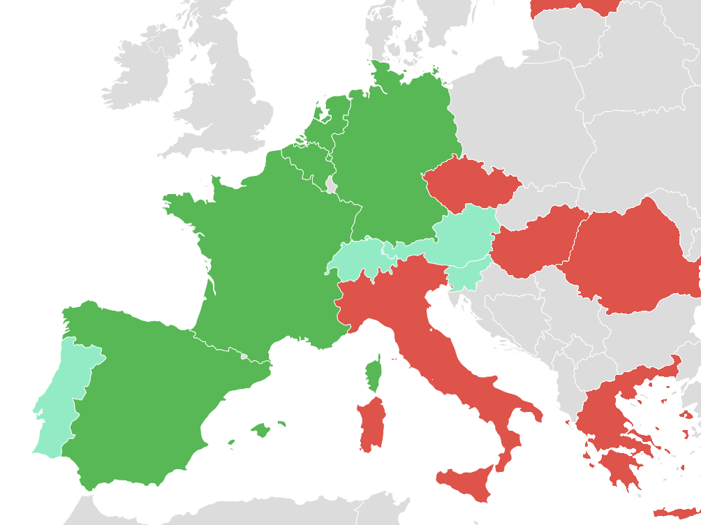 Adoption of the Nutri-Score in Europe (December 2019) Health authorities have recommended the use of the Nutri-Score Some food companies use the Nutri-Score Authorities are opposed to the use of Nutri-Score